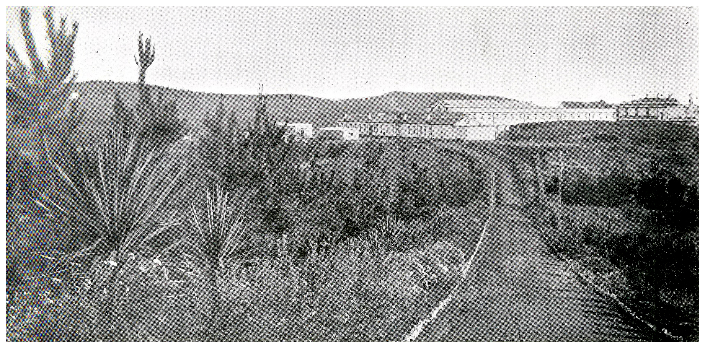 During the First World War between 1,500 to 2,000 objectors and defaulters were convicted, or came under state control, for their opposition to war. At least 64 of these were still at Waikeria Prison on 5 March 1919 - some of whom had gone on hunger strike in protest. This image of Waikeria Prison comes from a Government Publication called 'The Evolution of the Prison System', published in 1923. It shows a view of the prison from Reservoir Hill. Archives Reference: ABGU W3777 Box 11/ 149 Material from Archives New Zealand